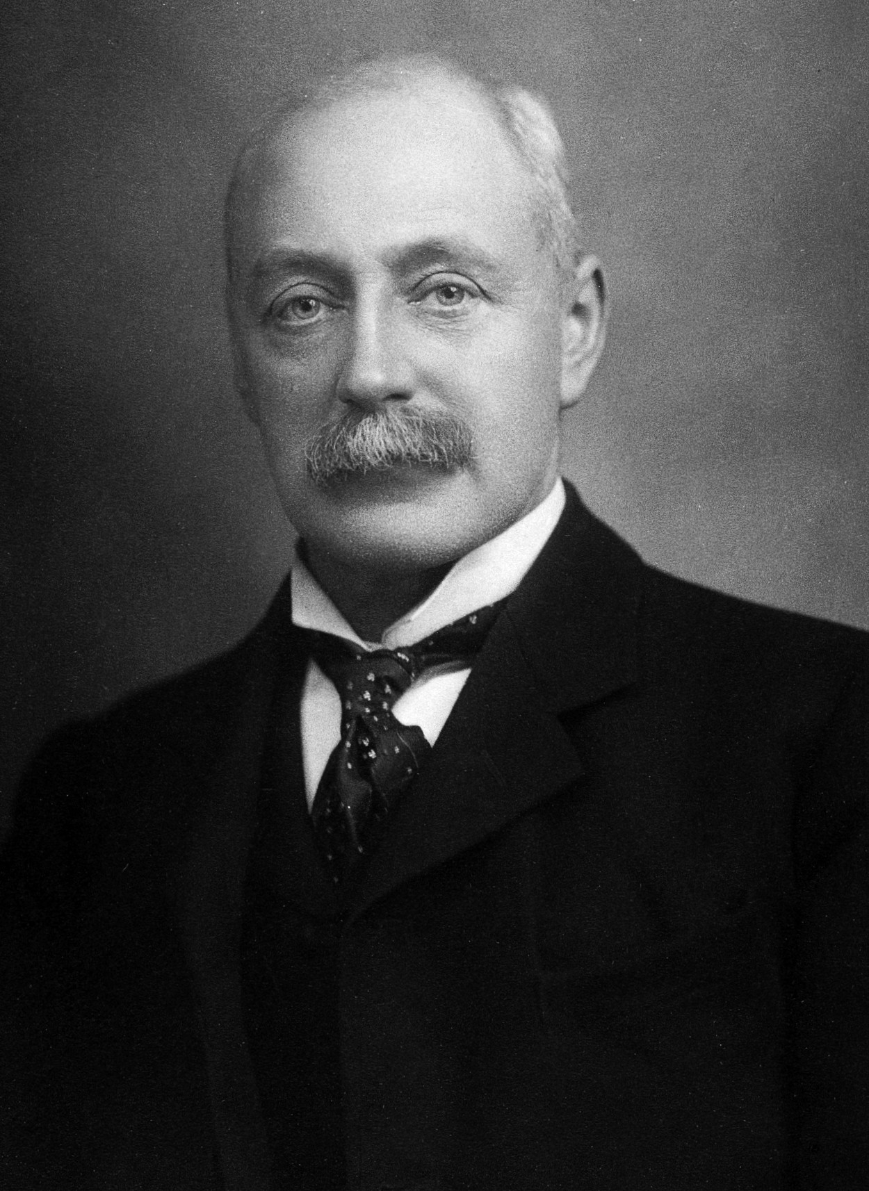 Portrait of D'Arcy Power. Archives & Manuscripts